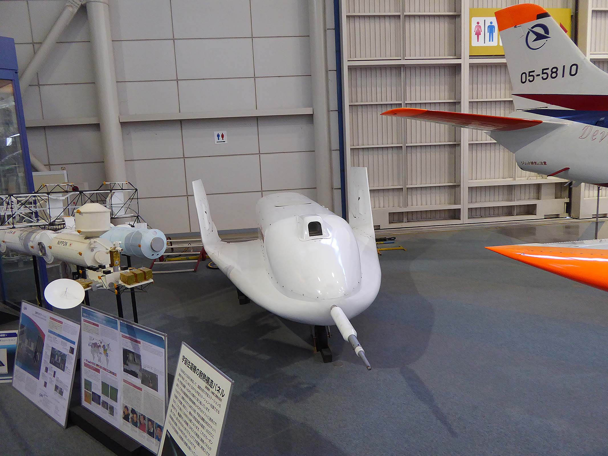 Test Vehicle for Automatic landing exprement . 自動着陸予備実験機